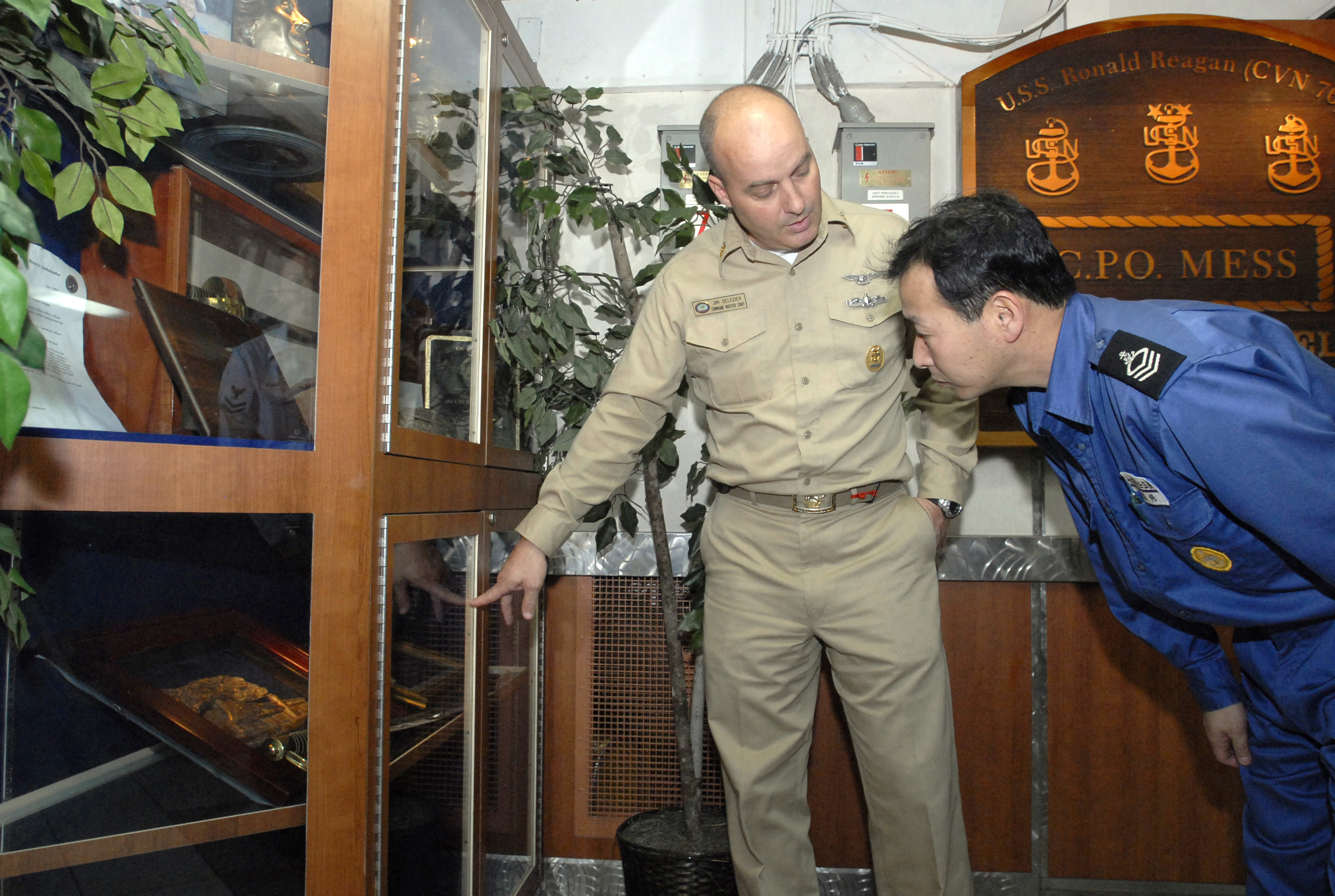 PACIFIC OCEAN (March 16, 2007) - Command Master Chief (CMDCM) Jim Delozier gives JS Myoko's (DDG 175) CMDCM Osamu Natsume, Japan Maritime Self Defense Force (JMSDF), a tour around USS Ronald Reagan (CVN 76) chief petty officer's mess. Ronald Reagan's chief petty officer's mess, named Rancho Del Cielo, contains articles donated to the ship by Nancy Reagan from President Reagan's ranch. Ronald Reagan Carrier Strike Group is underway in support of 7th Fleet operations. U.S. Navy photo by Mass Communication Specialist 3rd Class Gary Prill (RELEASED)